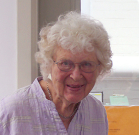 This is an informal photograph of the artist who is the subject of the article Lois Betteridge.